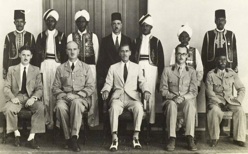 Official photograph showing Sir Stewart Symes (seated center), Governor-General of the Sudan (1934-1940), with members of his staff. Taken at the Governor-General's palace at Khartoum c. 1940.